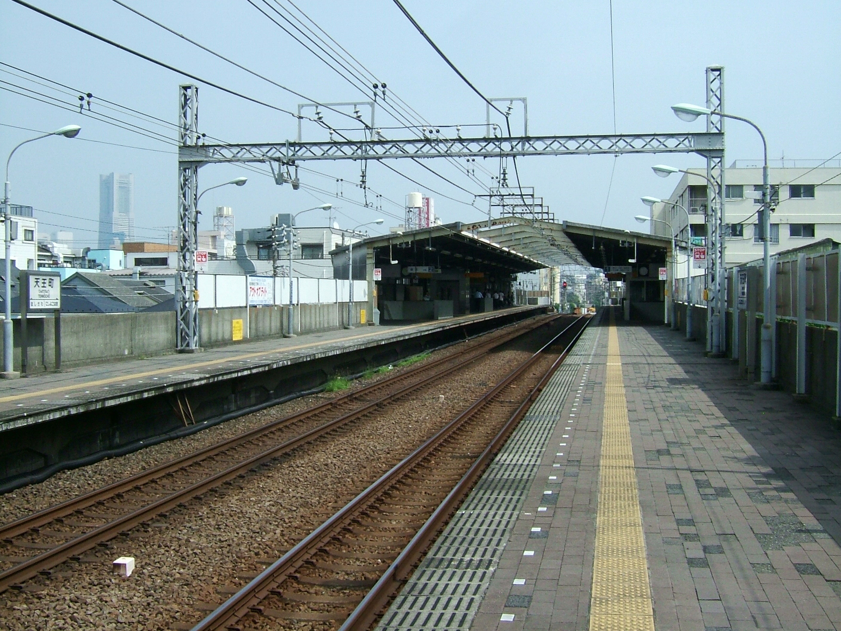 The platforms at Tennōchō Station on the Sagami Railway Main Line in Hodogaya-ku, Yokohama, Japan